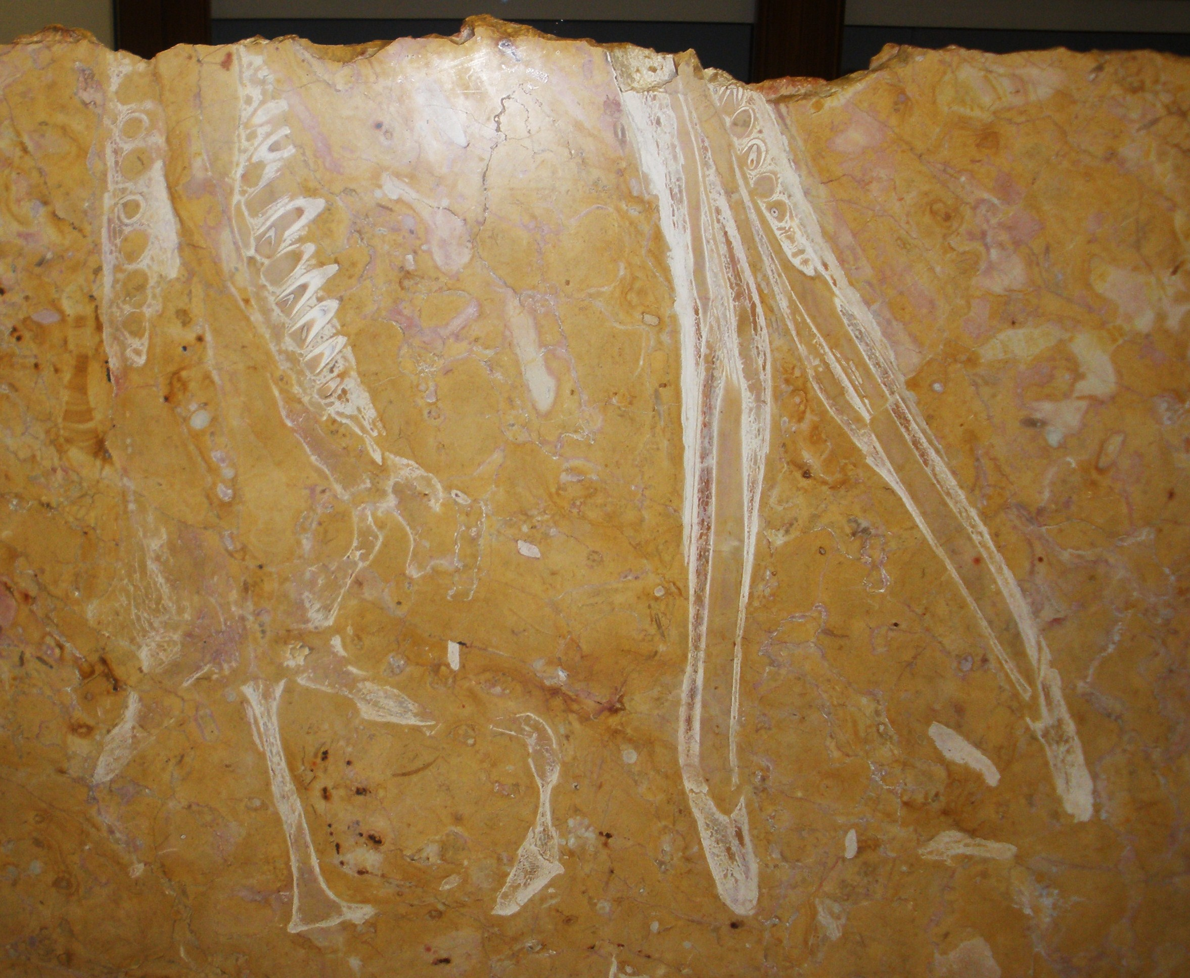 Fossil of Neptunidraco ammoniticus, an extinct crocodile